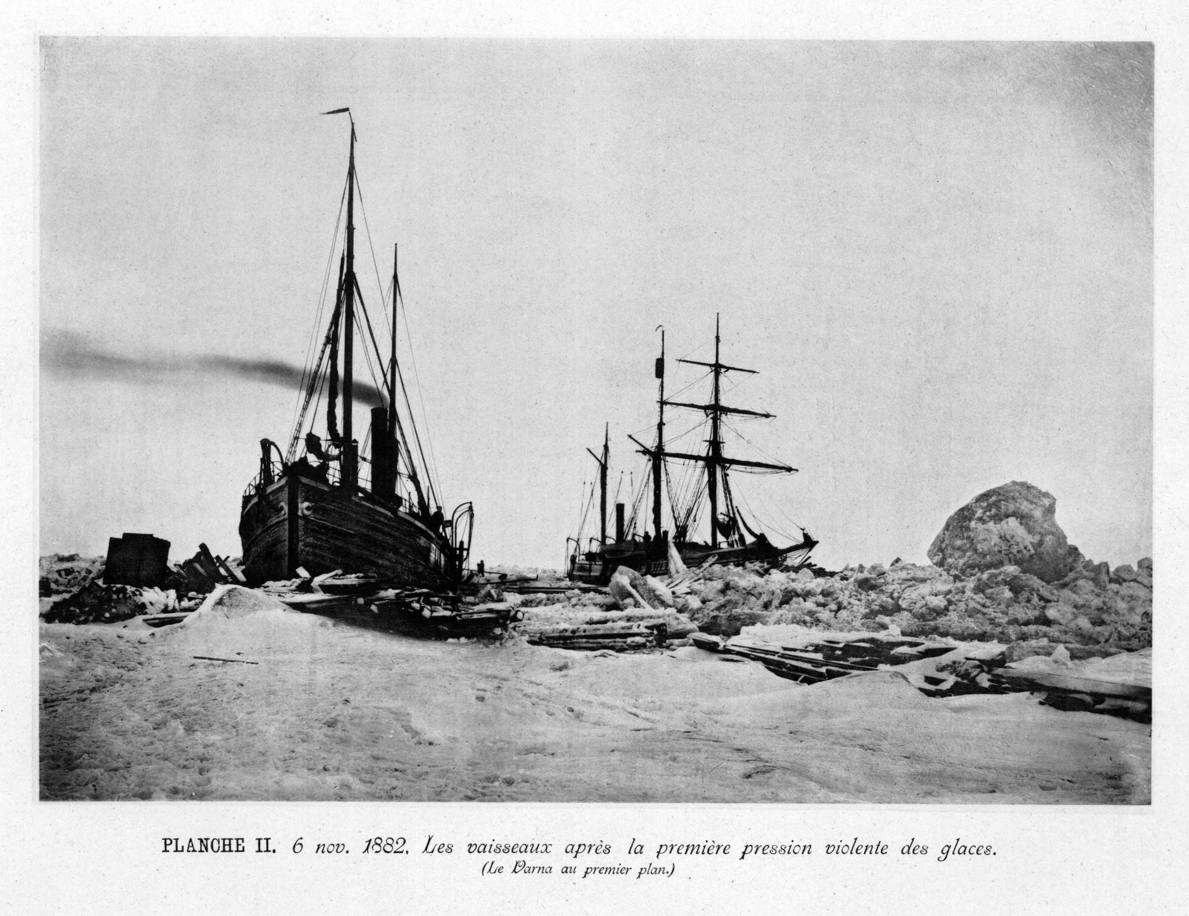 Plates/Figures from the publications of the first IPY (International Polar Year) 1887/88